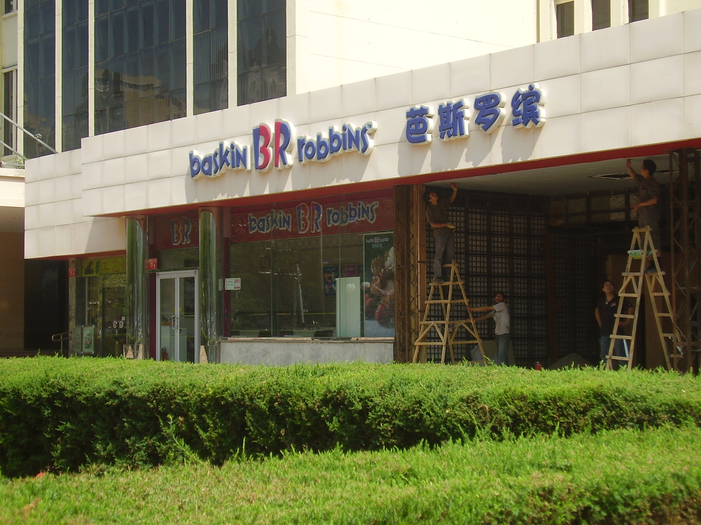 Baskin-Robbins Youyi Store - No. 17 Jianguomen Outer Street (Jianguomenwai Dajie), Chaoyang District